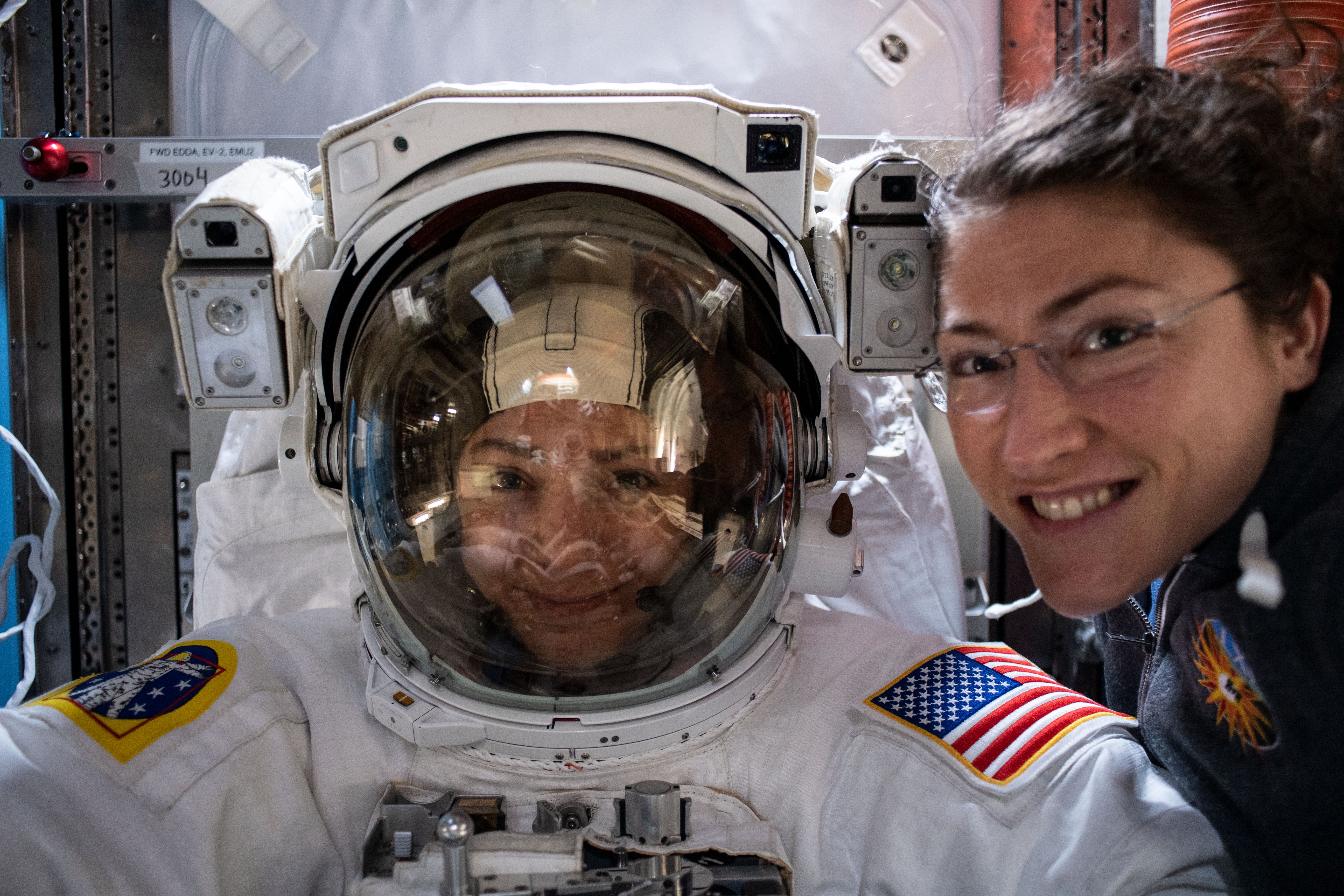 NASA astronaut Christina Koch (right) poses for a portrait with fellow Expedition 61 Flight Engineer Jessica Meir of NASA who is inside a U.S. spacesuit for a fit check. The duo is preparing for their first spacewalk together planned for Oct. 18 to replace a failed power controller on the International Space Station's P6 truss structure.